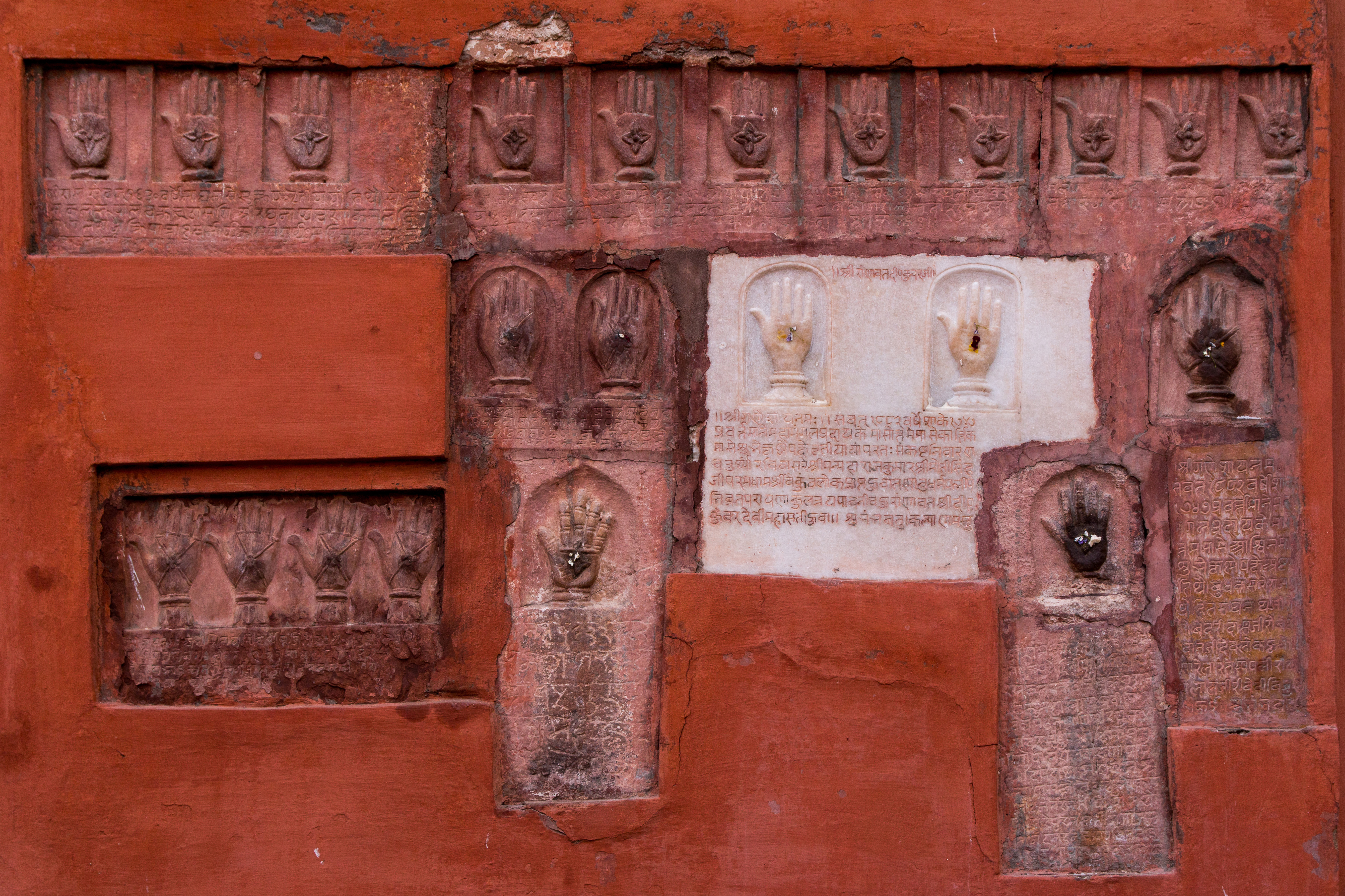 On the wall of the Daulat Pol (Daulat gate)l, are forty-one hand inprints of wives of the Maharajas of Bikaner, who committed/suffered the Sati on the pyre of their husband who died in combat. The wall is tinted with red powders as a sign of respect, and their sacrifice continues to be honored as evidenced by flower petals and candy lodged in the palm of their hands, sometimes rubbed scented oil.